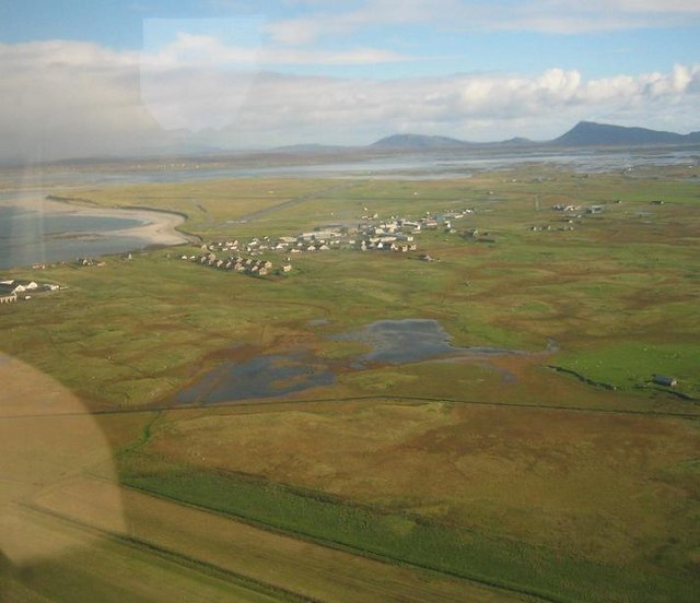 Aerial view of Balivanich and Benbecula airport with North Uist in the background, Outer Hebrides, Scotland